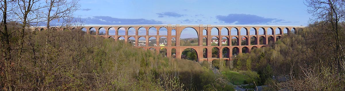 This image shows panorama photo of the Göltzschtal bridge, which is located near Reichenbach i.V. at Mylau (Saxony, Germany). The photo has been taken with a distance of about 500 m (0.3 miles).